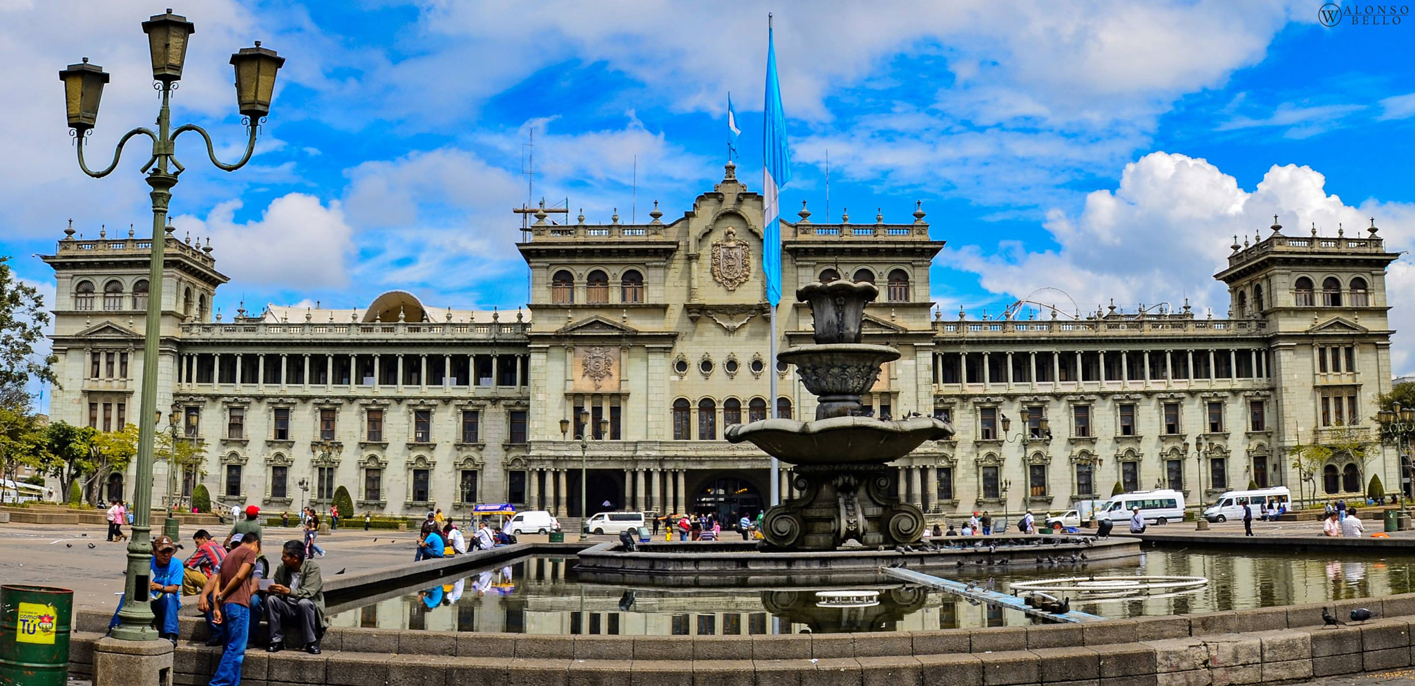 500px provided description: Visitando Guatemala [#city ,#tower ,#architecture ,#fountain ,#old town ,#palace ,#steeple ,#clock tower ,#building exterior ,#famous place ,#international landmark ,#town square]